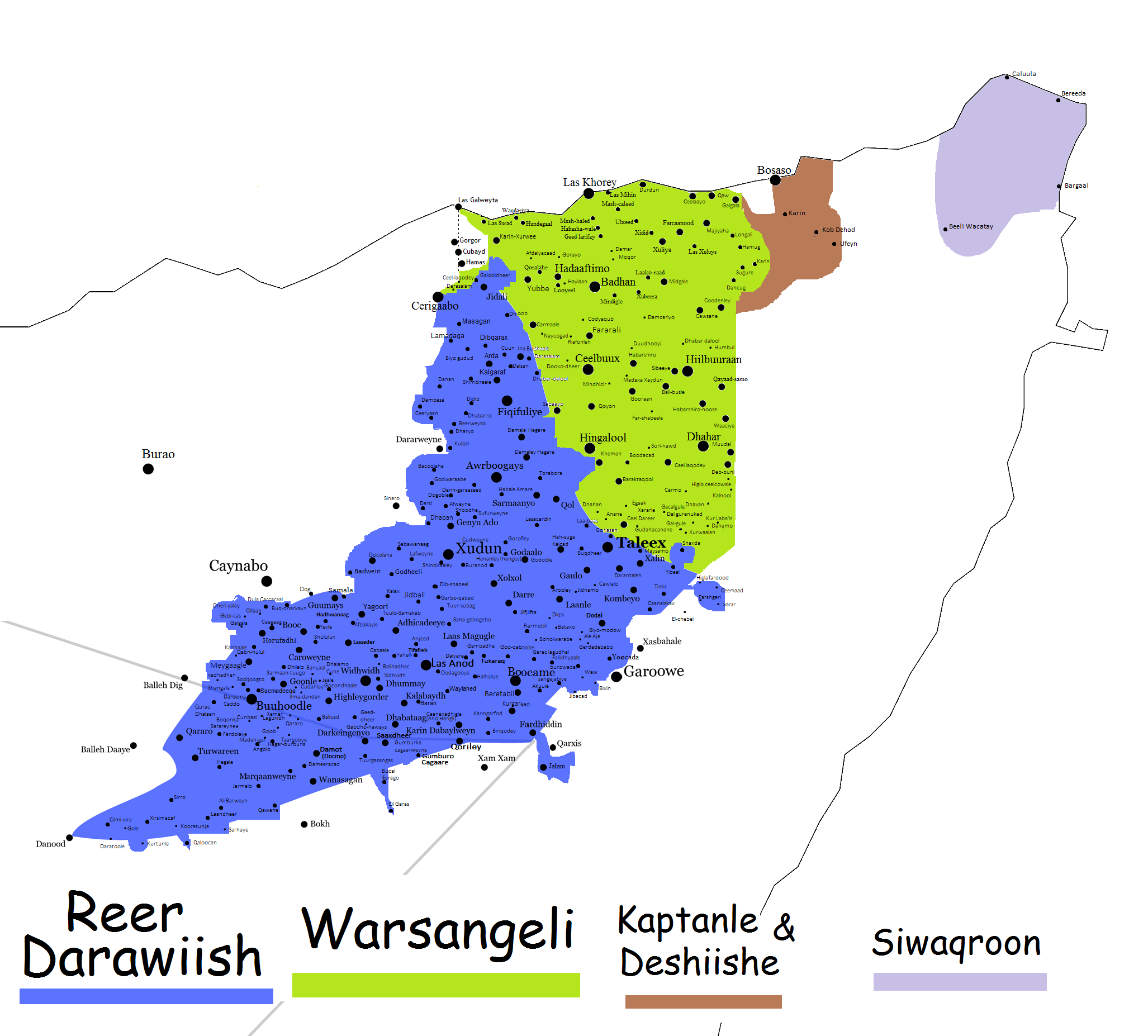 tip of horn of africa tribes